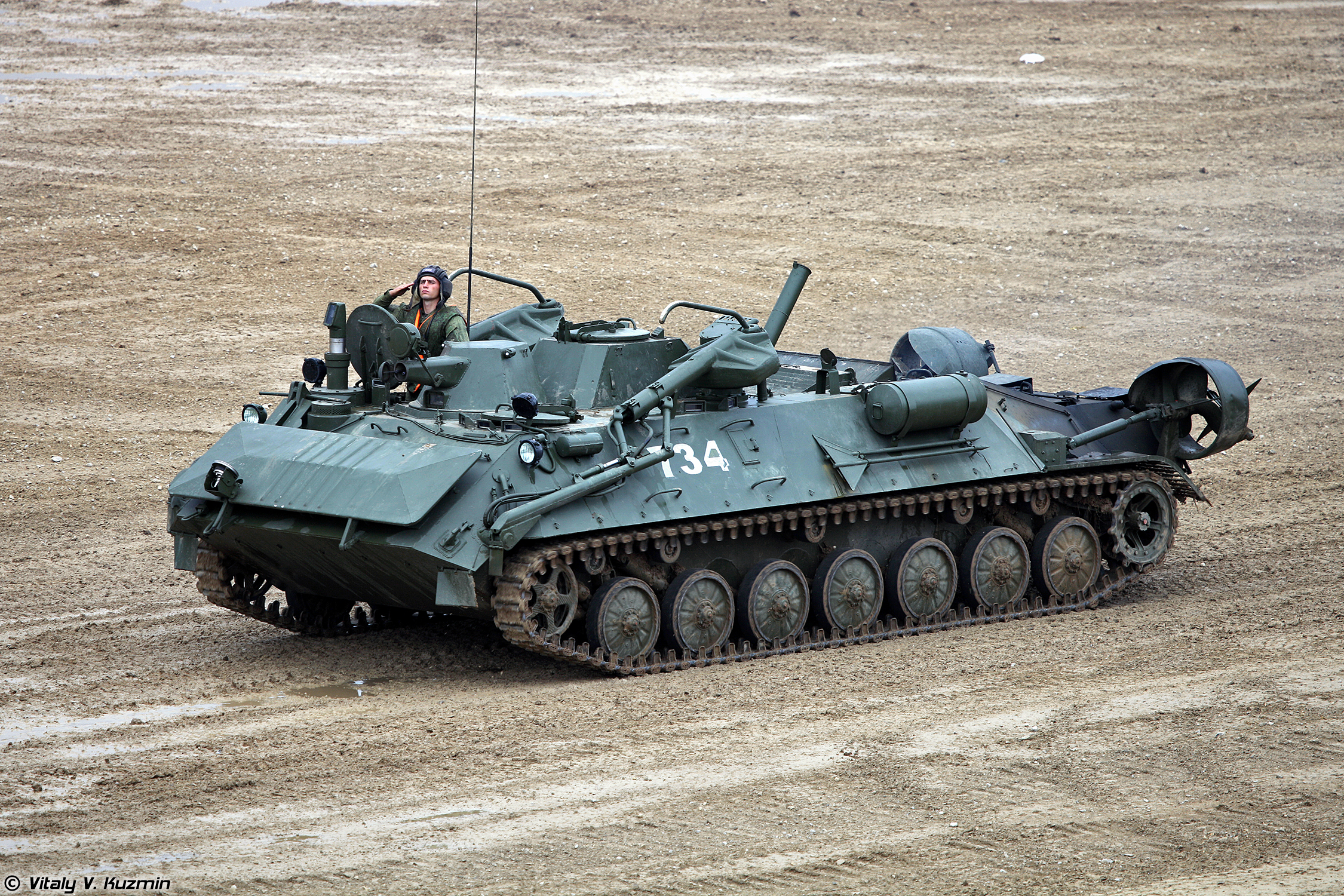 IRM Zhuk engineer reconnaissance vehicle